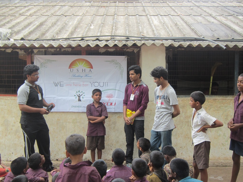 Project USHA at Juvenile Homes